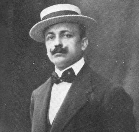 Italian poet Filippo Tommaso Marinetti